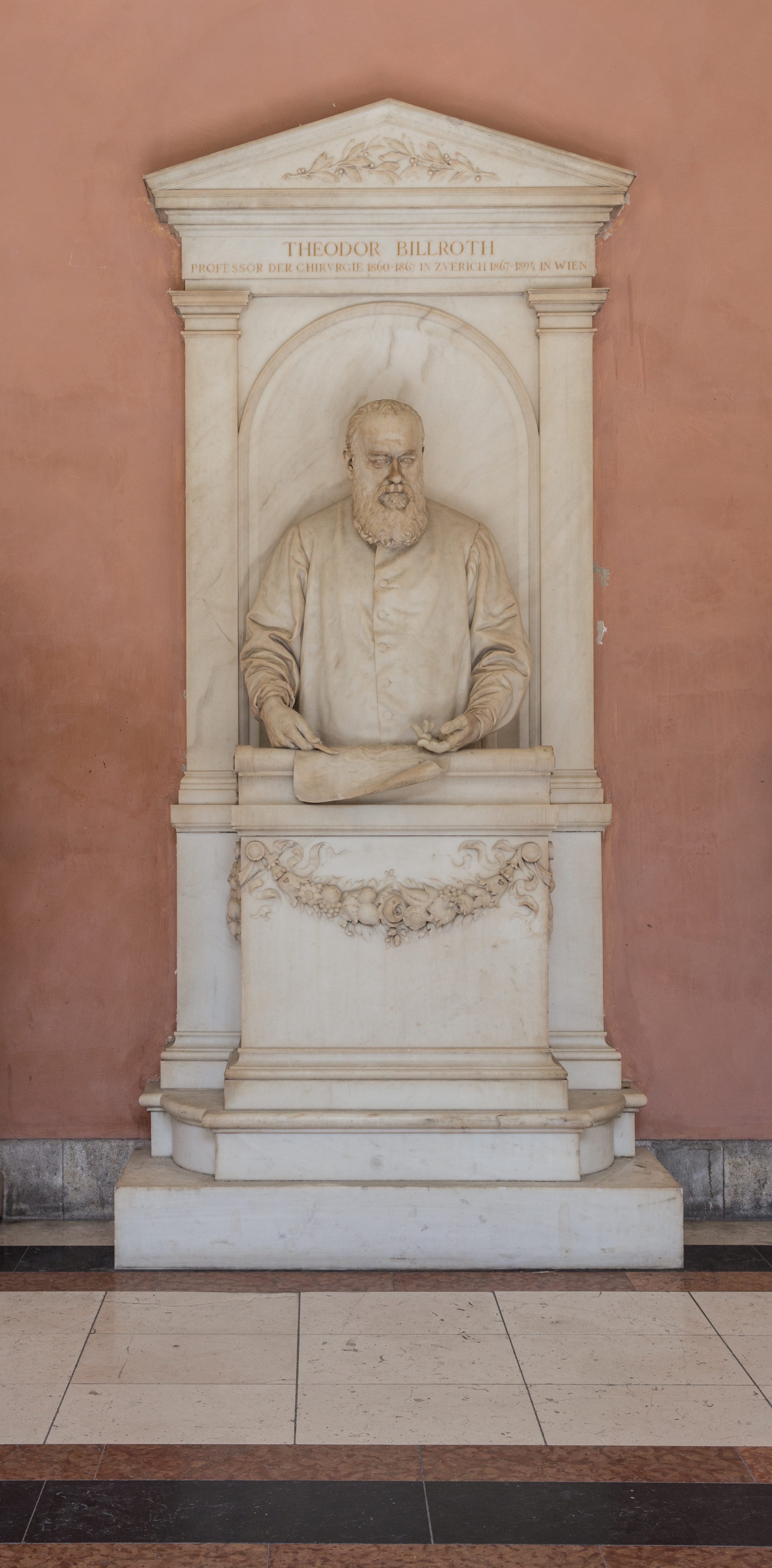 Theodor Billroth (1865-1935), Surgeon, bust (marble) in the Arkadenhof of the University of Vienna, (Maisel# 130). Artist: Caspar von Zumbusch (1830-1915), unveiled 1897